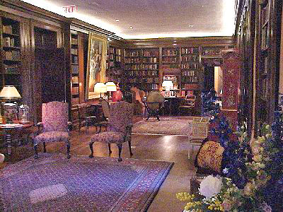 Library at Grey Towers National Historic Site